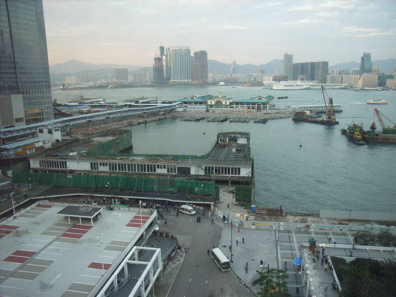 The missing HK Star Ferry Piers Clock Tower. 消失中的中環天星碼頭 鐘樓. (The author and photographer is User:HK Star Farewell).